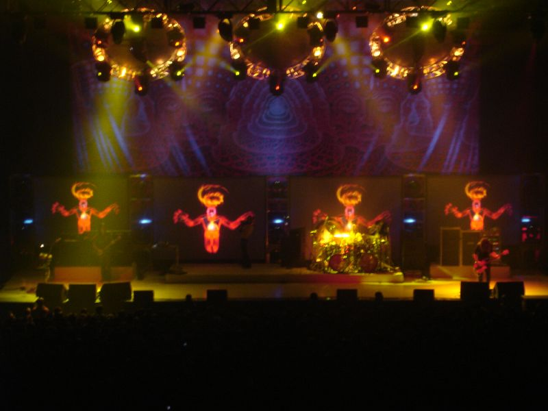 Tool stage in Paris. 2006.